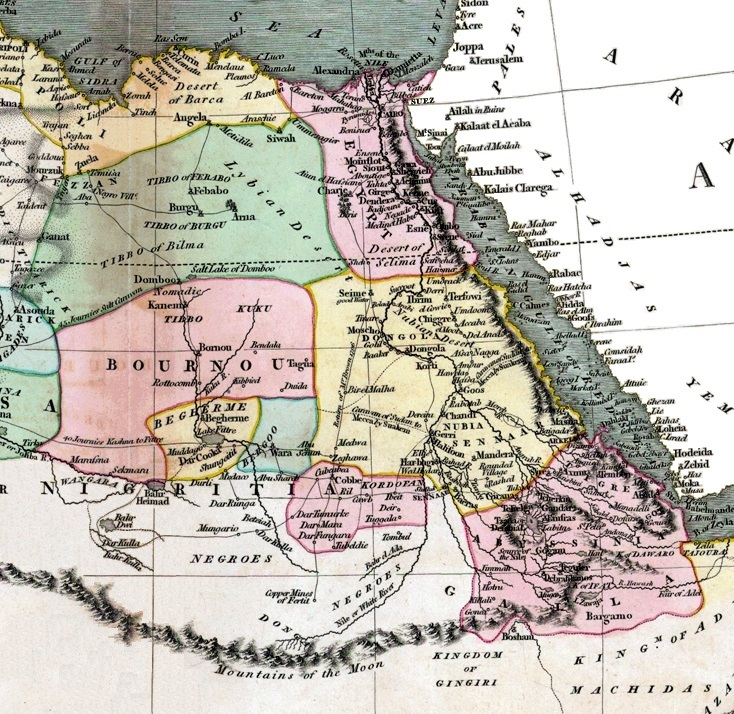 Section of an old map from Africa, made by John Cary in 1805. The map includes the "Mountains of the Moon", which were deemed to be at the source of the Nile.